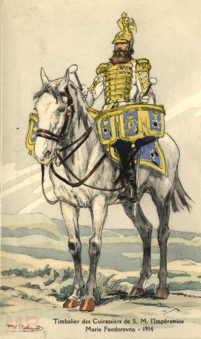 A mounted kettle drummer of the H.M. Empress Marie Feodorevna Cuirassier Guard Regiment. 1914 Postcard.